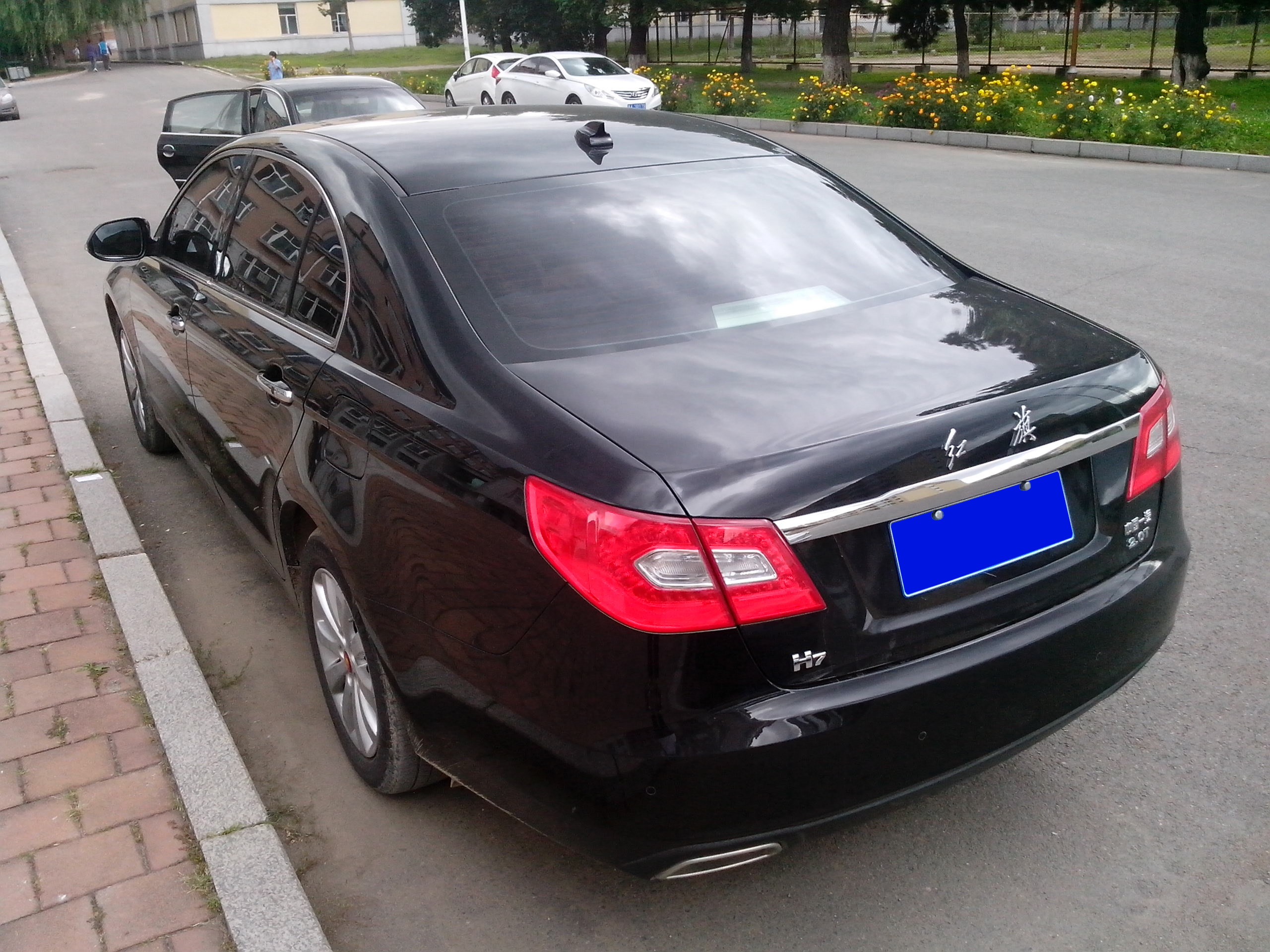 Hongqi H7 rear